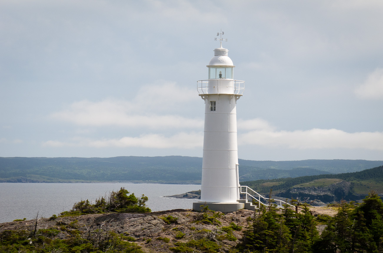 Kings Cove Head Lighthouse, Kings Cove, Newfoundland and Labrador, Canada Lat./Long 48.57, -53.32